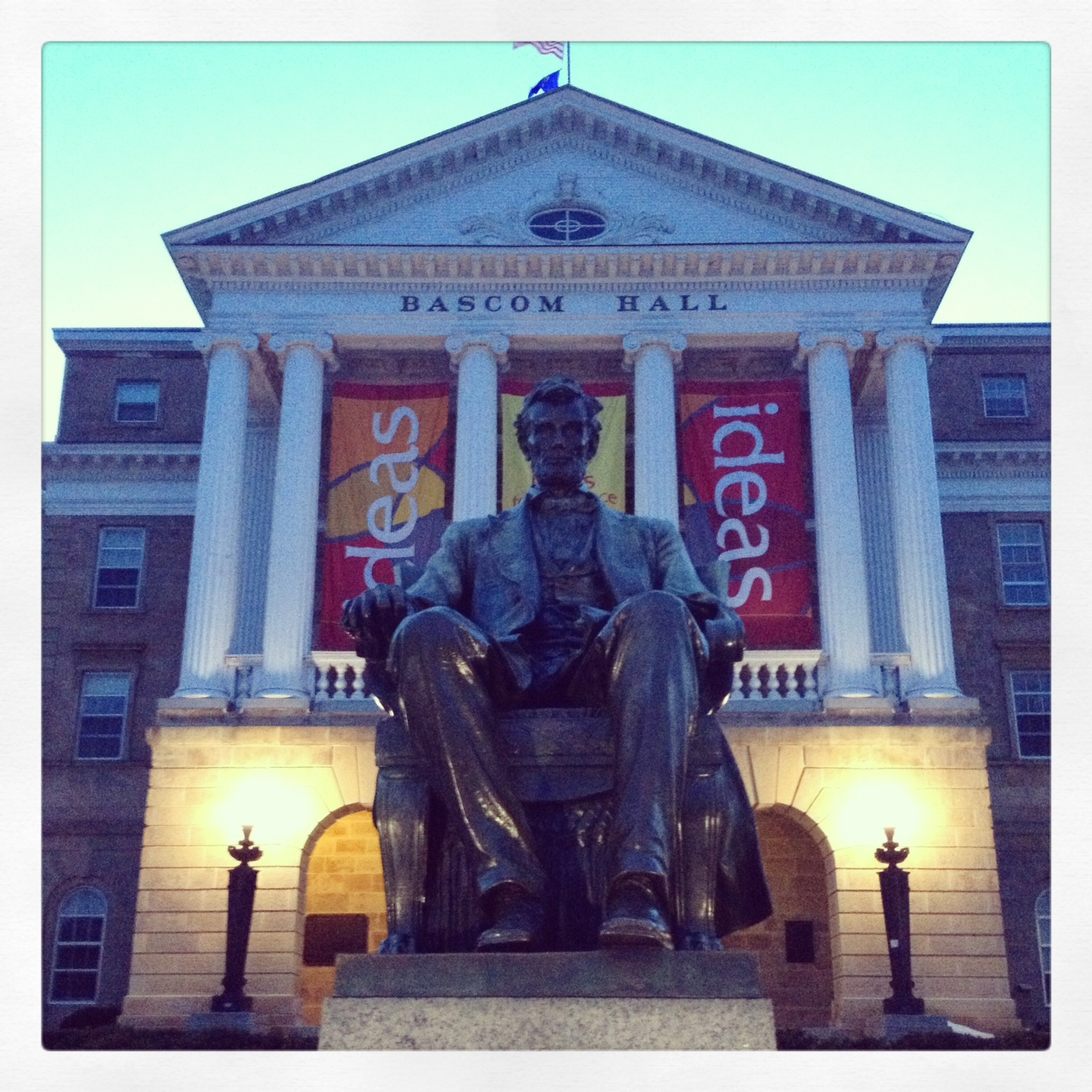 A view of the front of the Universtiy of Wisconsin's Bascom hall